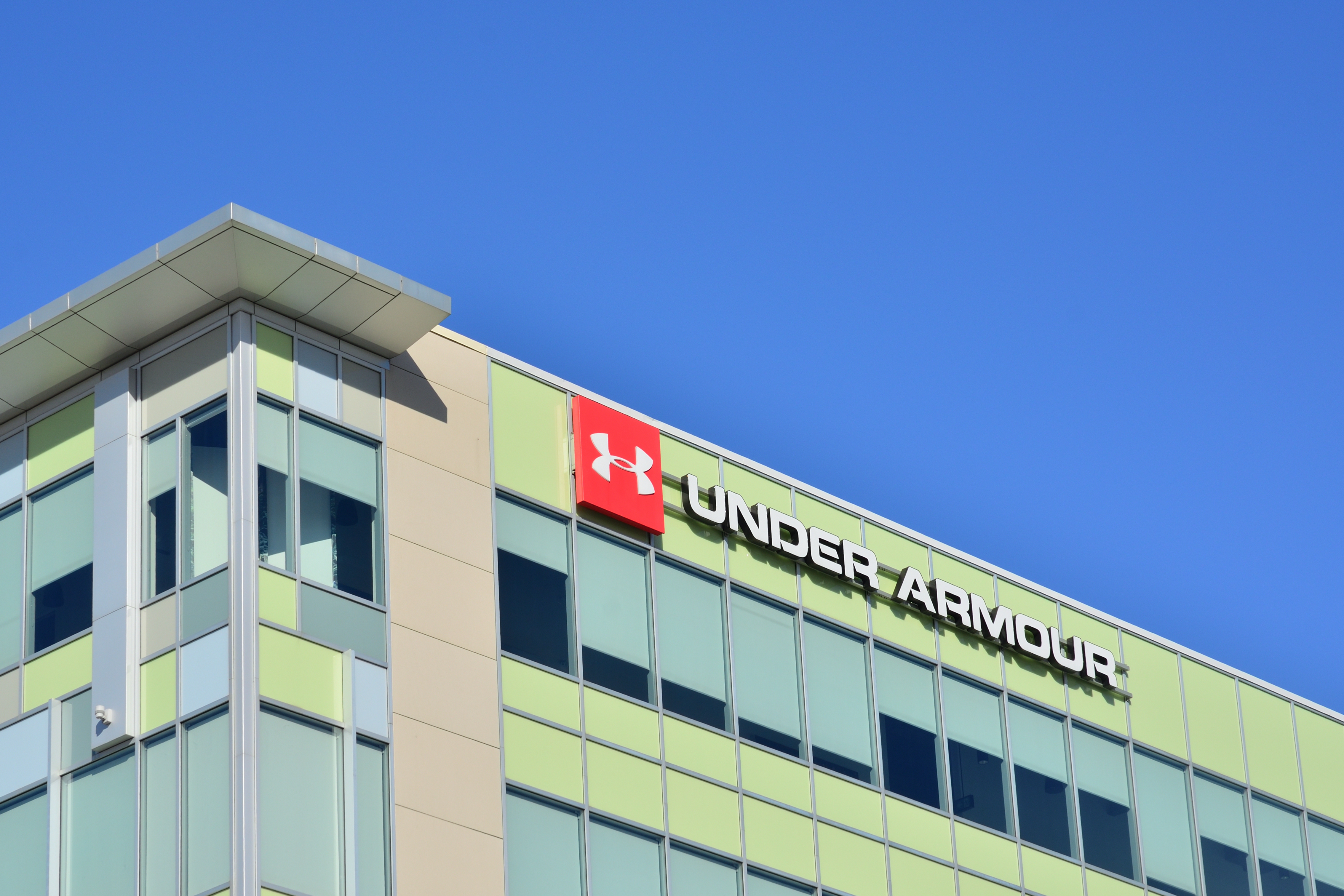 Under Armour corporate office - address: 169 Enterprise Blvd #500, Markham, ON L6G 0E7